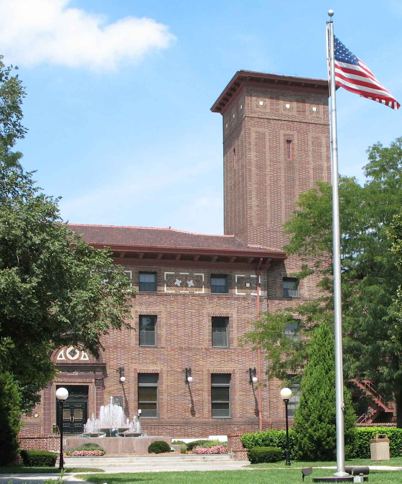 Kansas City Star headquarters in August 2006. Photo by postr.